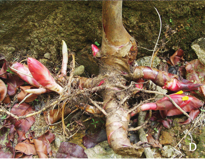 Amomum nilgiricum, rhizome with inflorescences